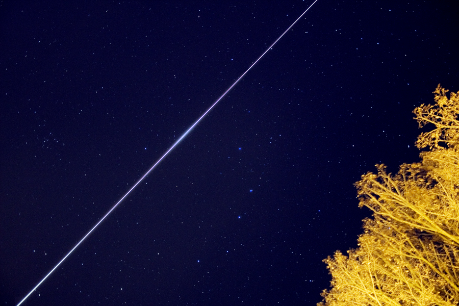 ISS overflight on 2008.01.10